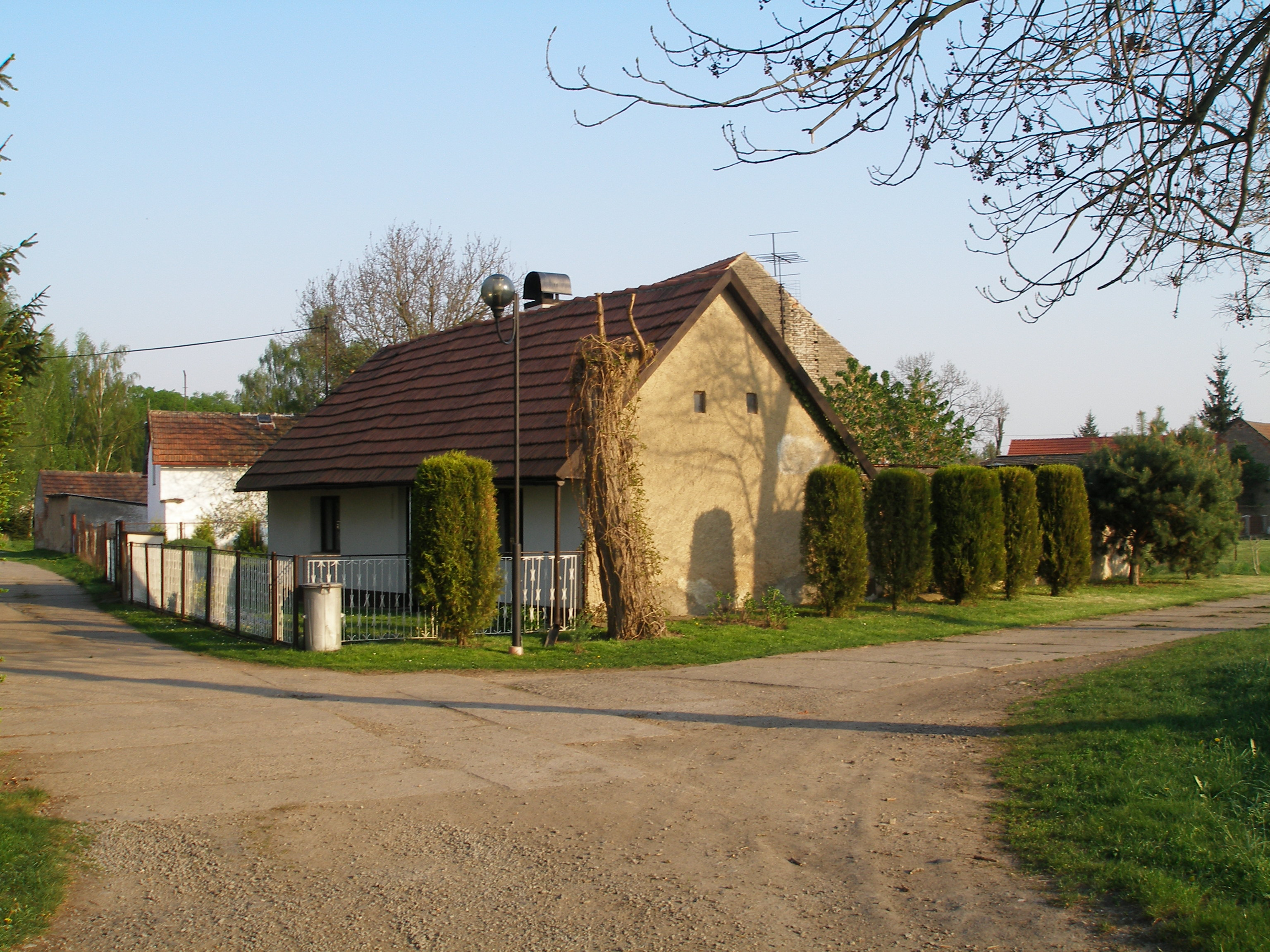 House in Daminěves.